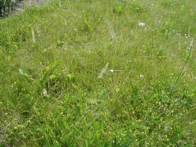 Cynosurus cristatus: Look at the arrow